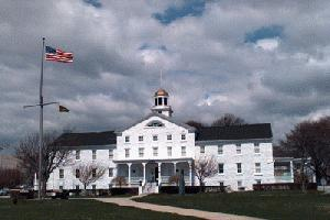 The museum of the United States Naval War College, established in Newport, October 6, 1884: the building is the original facility for the college, but remodeled since 1885, and the large stone building was also the former Newport Asylum for the Poor. Source (on US Navy webpage): as image file (300px width), a website of the United States Navy of the US Federal Government. Variations: related image: :Image:NavalWarCollege.jpg.